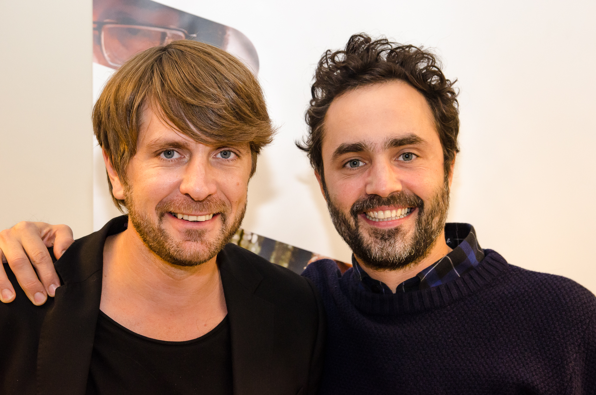 Ruben Östlund (til venstre) har skrevet manuskriptet og instrueret filmen Play, og står sammen med produceren Erik Hemmendorff, vinder af Nordisk Råds Filmpris 2012.